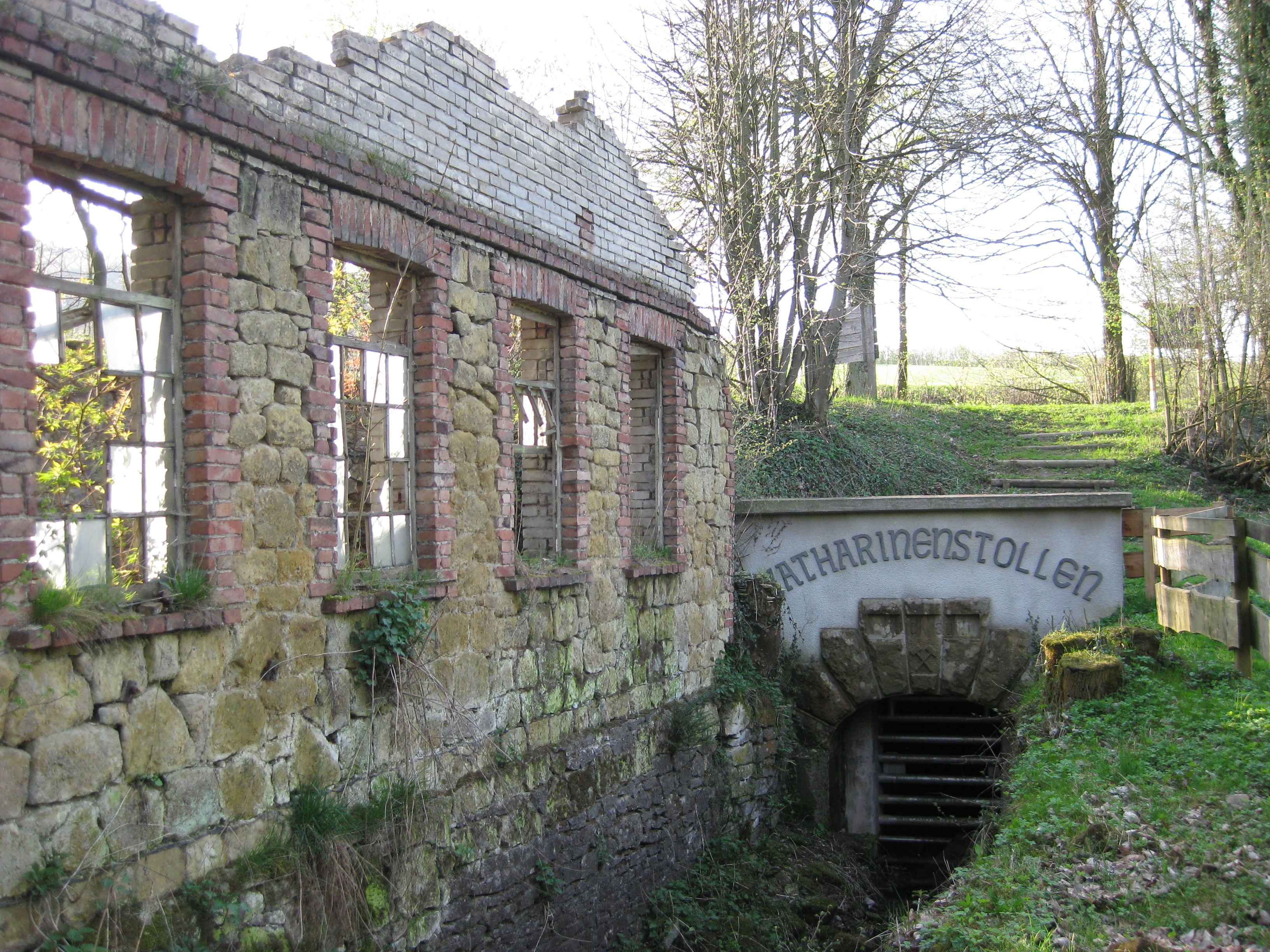 Halle (Westfalen) - Entrance to the gallery Katharinen